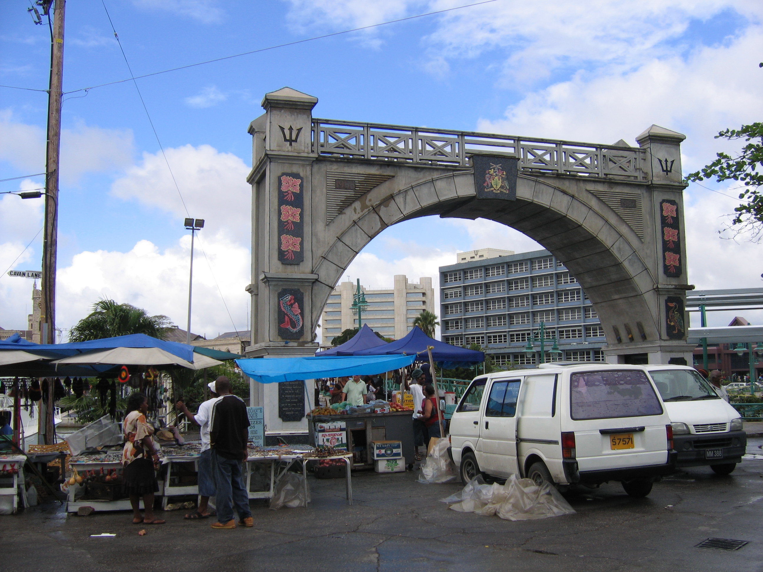 Street vendors under Chamberlain Bridge arch, Bridgetown, Saint Michael, Barbados.